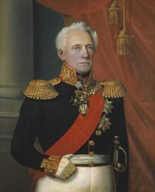 Russian general and Governor-General of Finland, A.A. Thesleff (1778-1847).